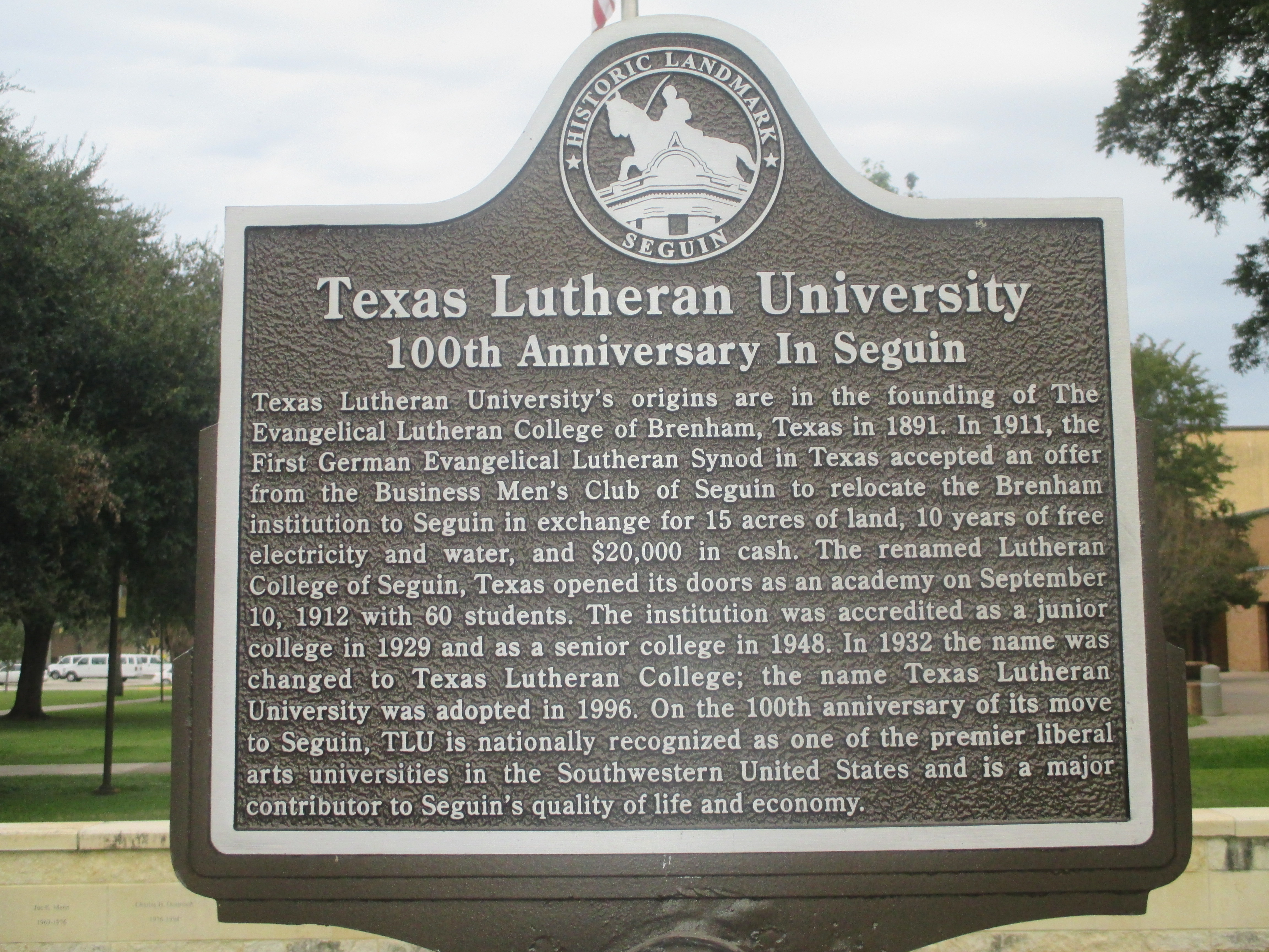 100th anniversary sign of Texas Lutheran University in Seguin, TX. Sign dated 2011; photo 2013